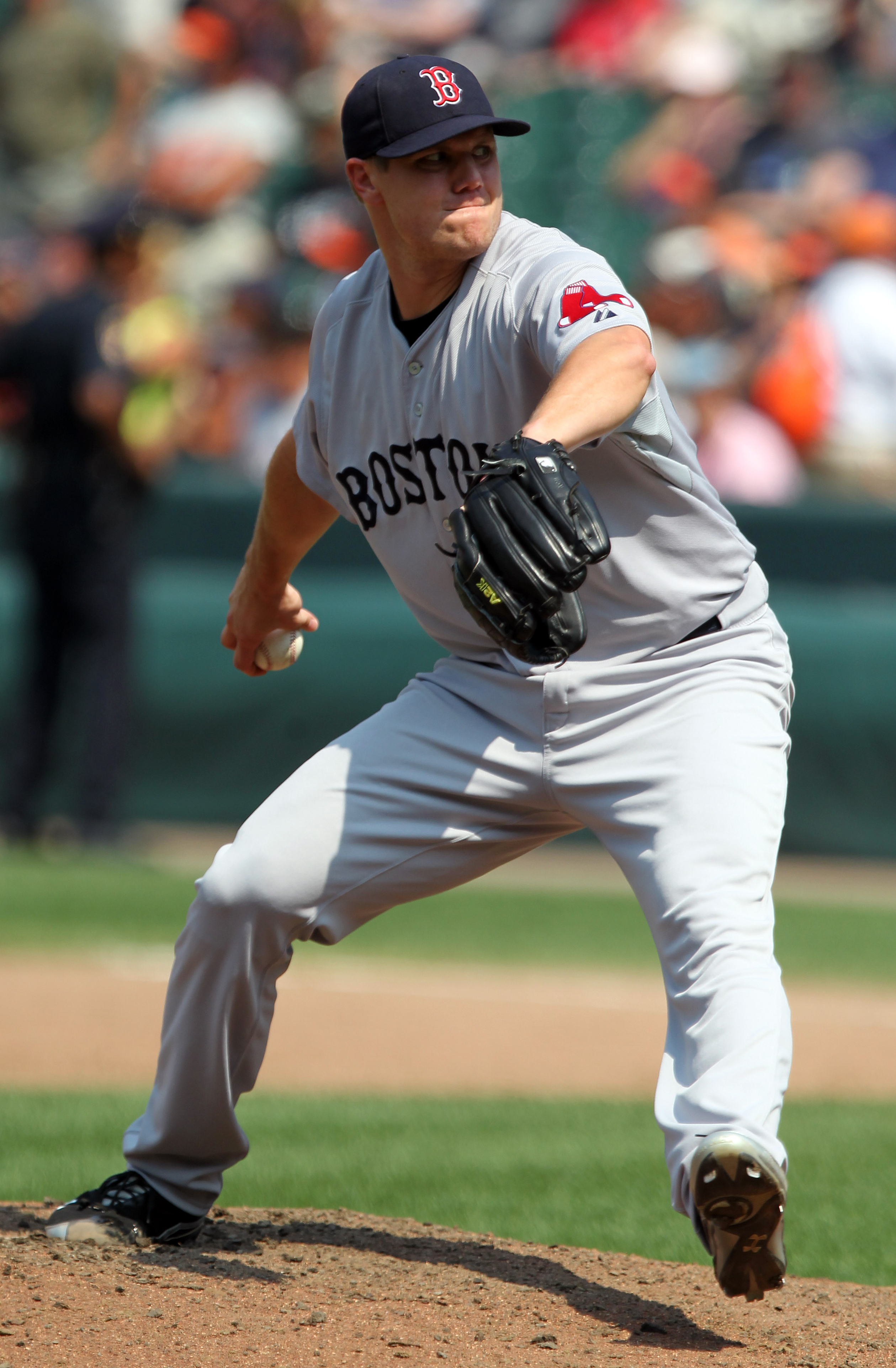 Jonathan Papelbon pitching for the Boston Red Sox against the Baltimore Orioles on July 20, 2011